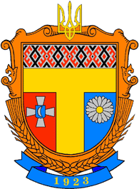 Coat of arms of Tomashpil Raion (Vinnytsia Oblast Ukraine)